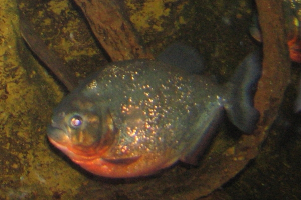 Black-spot Piranha (Pygocentrus cariba) at Newport Aquarium